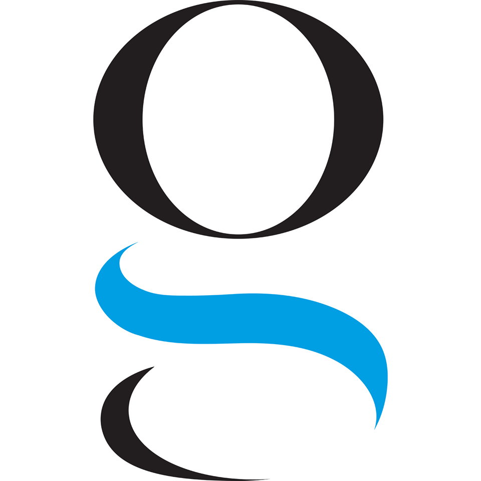 The logo of Studium Generale